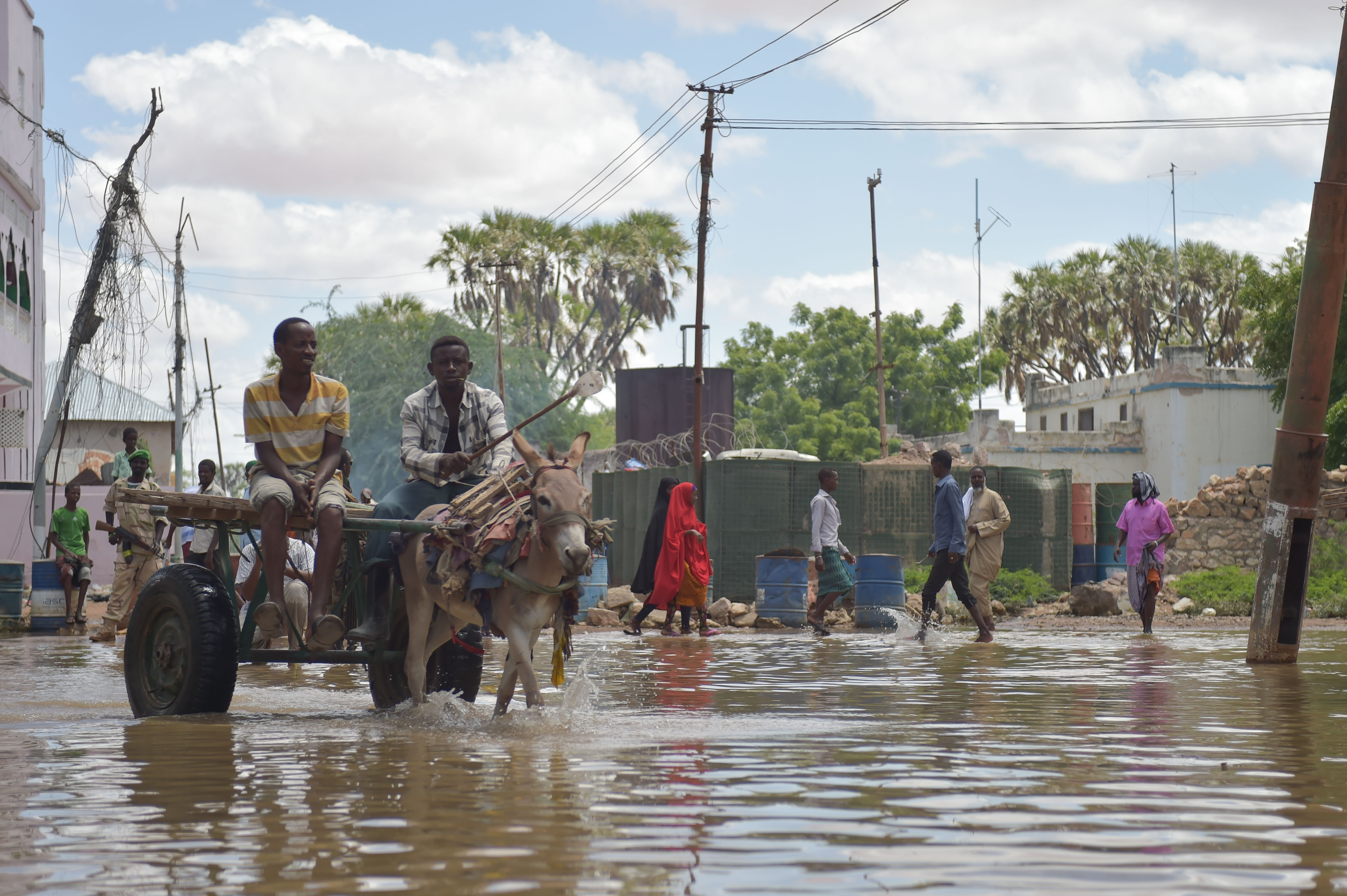 A donkey cart negotiates flood waters caused after the river Shabelle broke its banks in Beletweyne, Somalia, on May 27, 2016. Beletweyne is currently experiencing its worst flooding since 1981 and over 17,000 people have already been displaced. AMISOM Photo / Tobin Jones